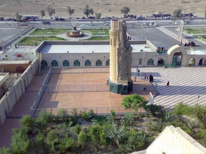 Imam Ali Mosque in Basra, Iraq